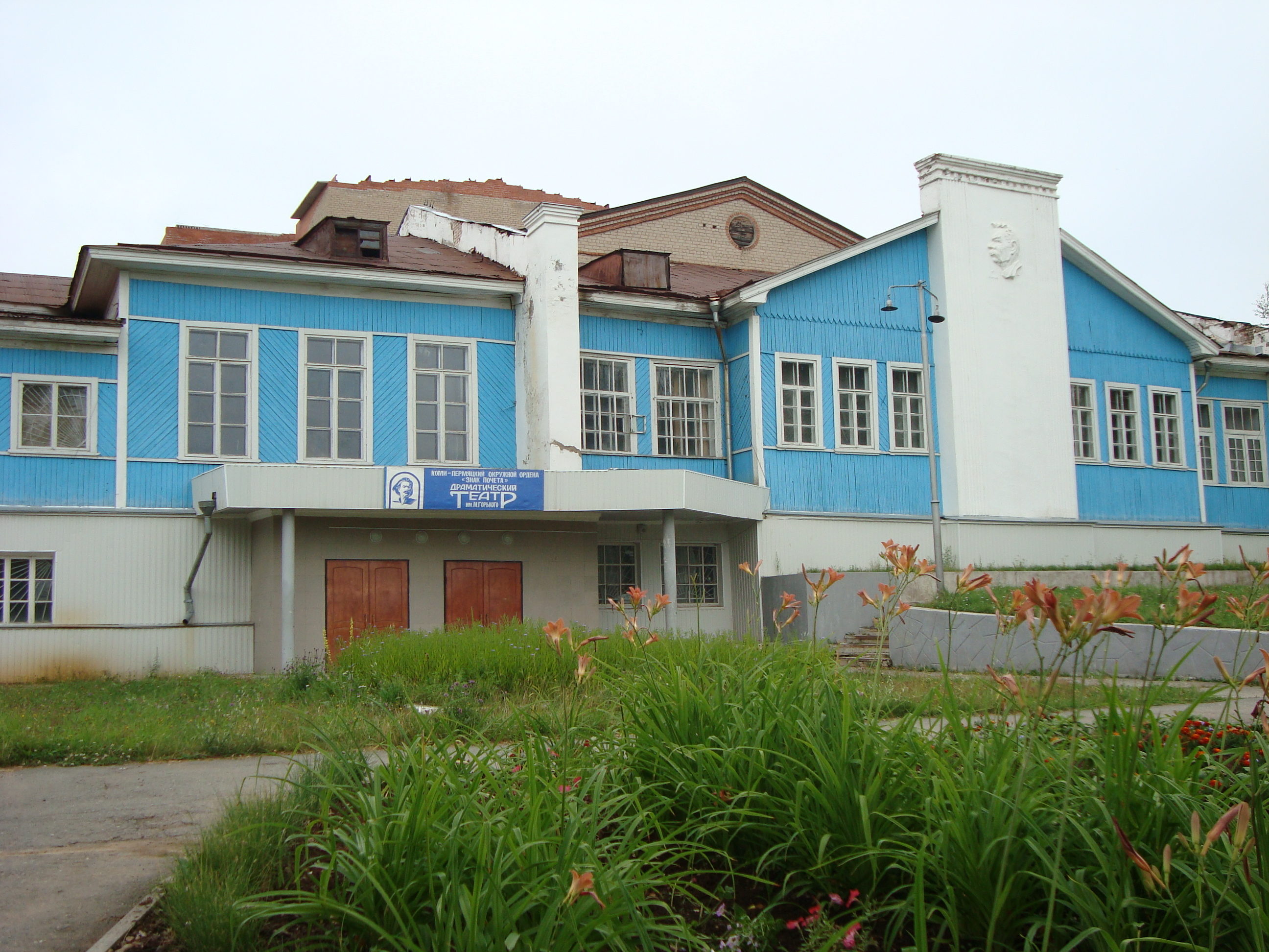 Komi-Permyak Drama Theatre in Kudymkar, Perm Krai, Russia